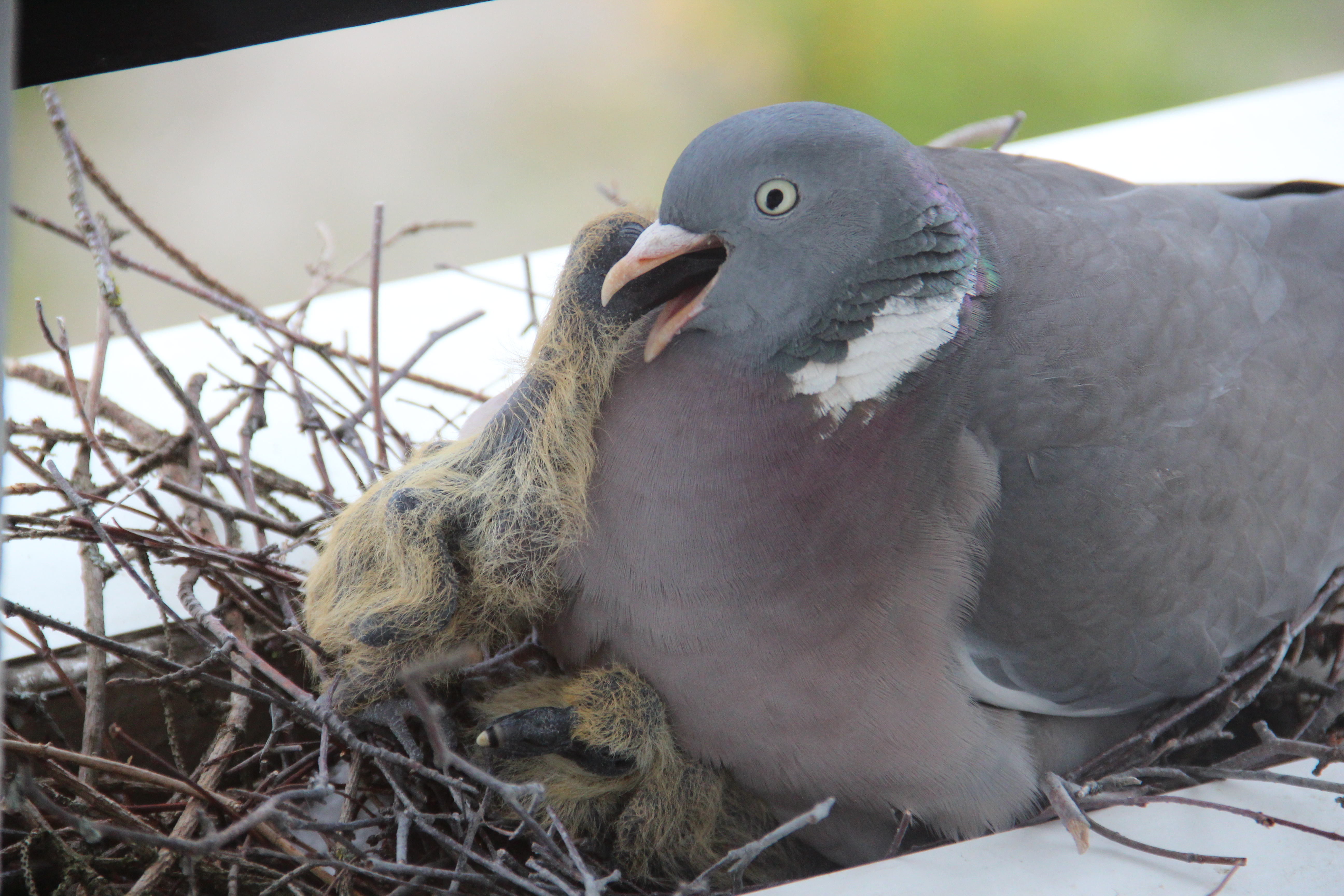 Columba palumbus eating